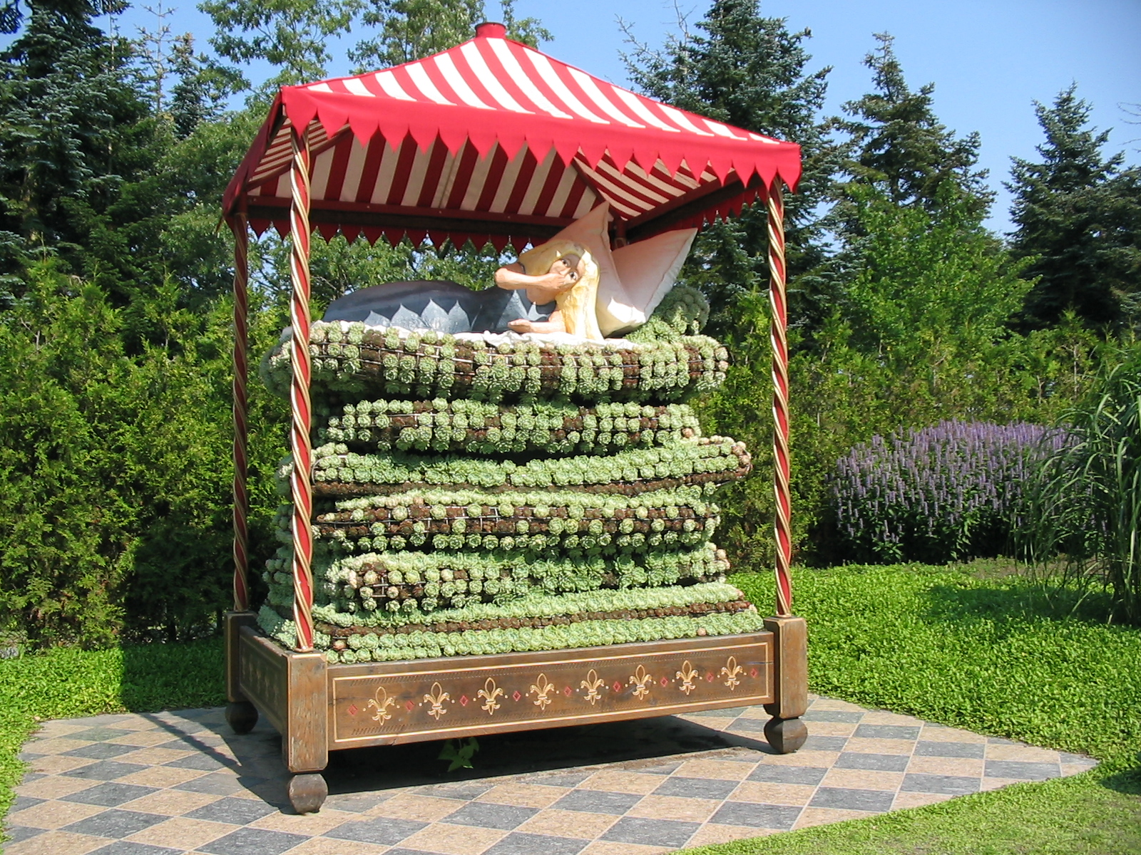 The princess and the pea